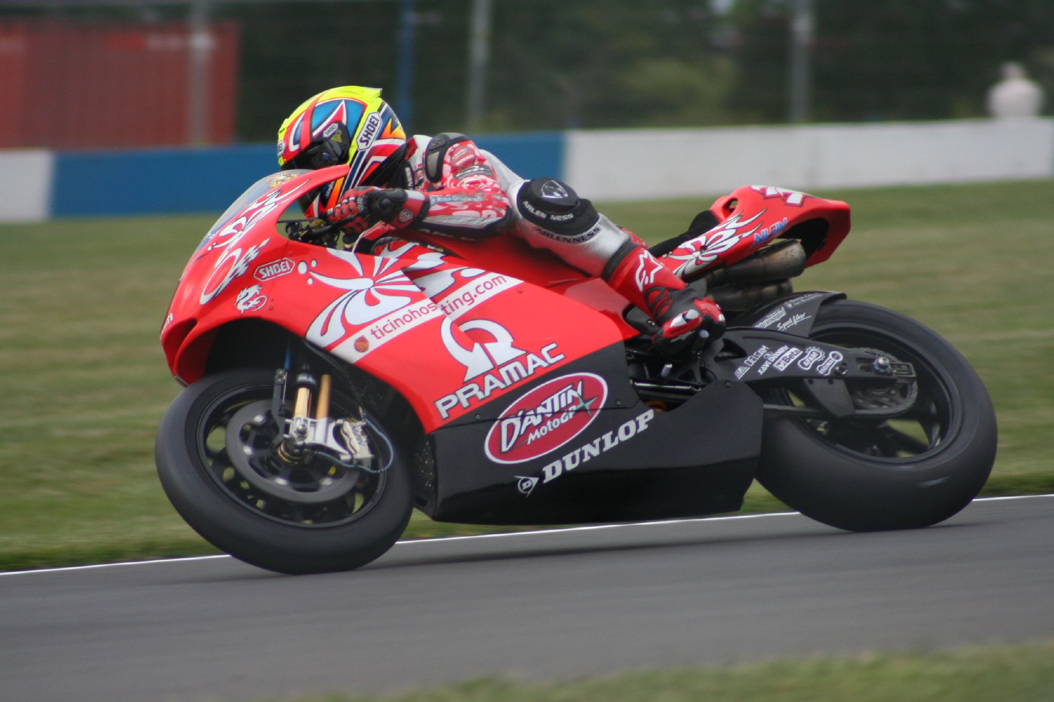 Roberto Rolfo, riding his Pramac Ducati at the 2005 British Grand Prix in Donington Park.